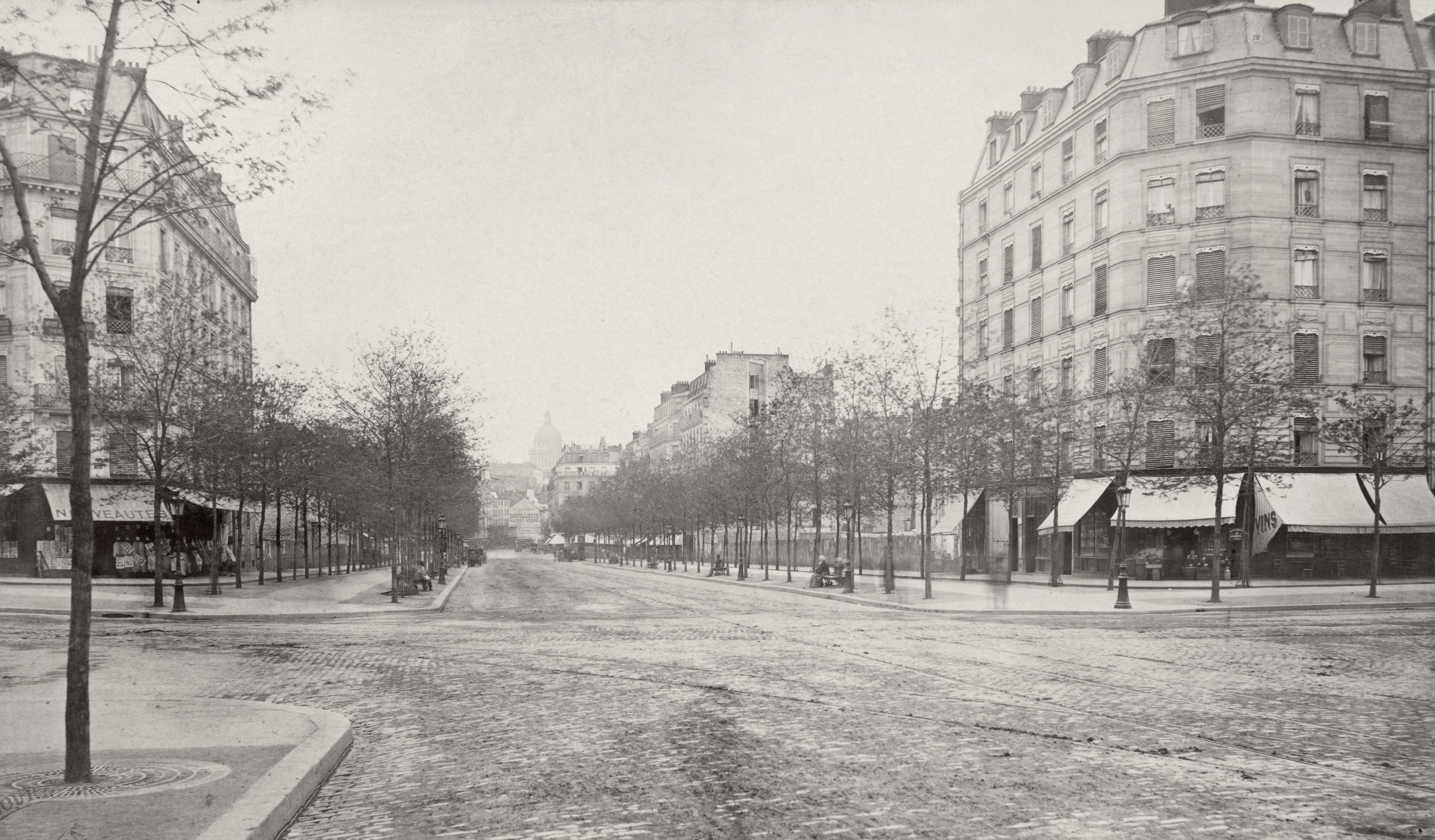 Looking along tree lined avenue from an intersection, buildings with awnings over paths, seats along curb, dome of the Pantheon visible in distance.